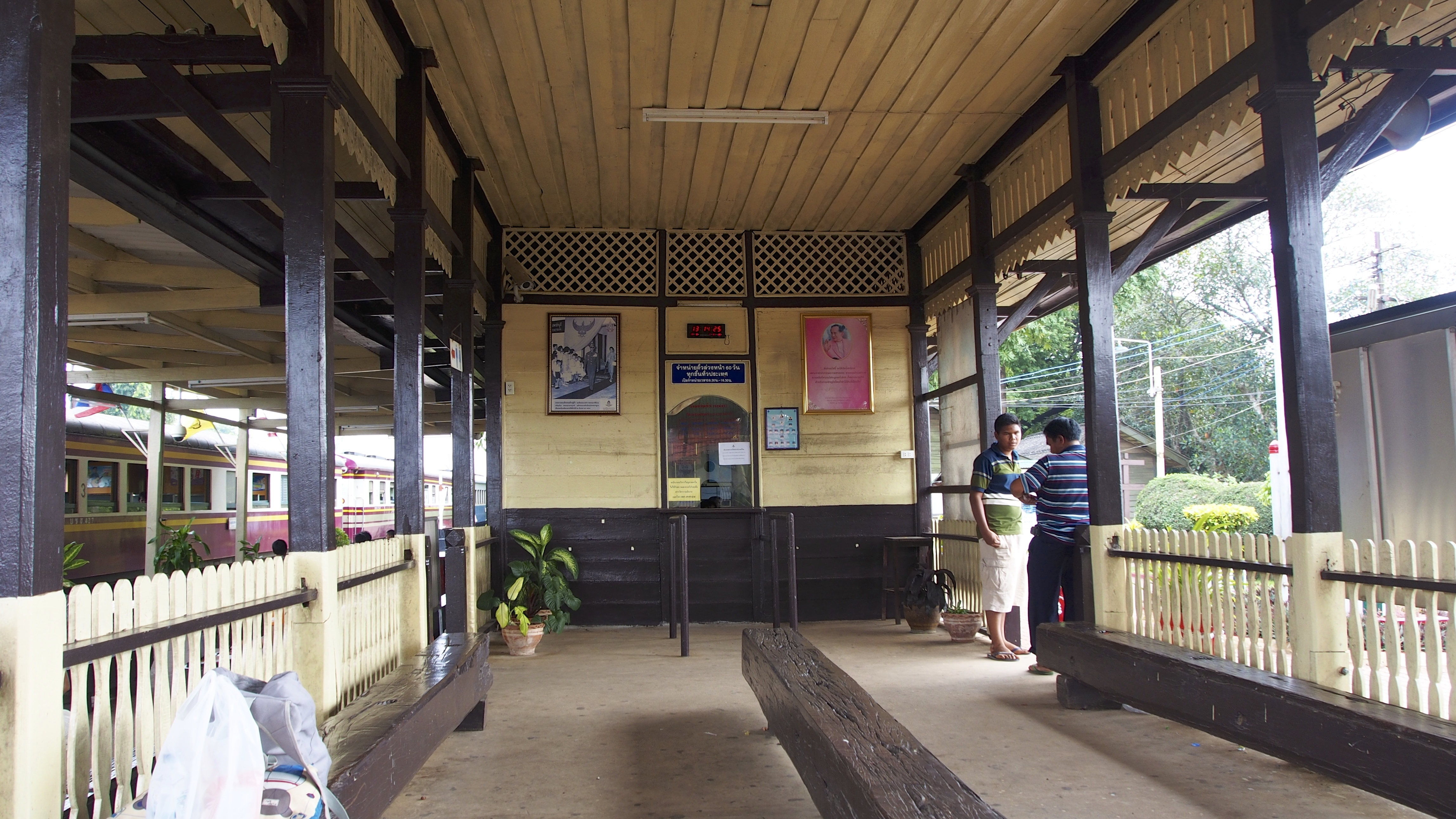 Aranyaprathet Railway Station This station is 10 minute tuk-tuk ride from the border and costs only $3.00. The train fare is 48baht or about $1.60. Plenty of food vendors outside the station, the meat on a stick was especially good from the vendor on the left. Easy to gather everything you need for the ride to Bangkok, water, beer and food,. It's all here and very inexpensive.